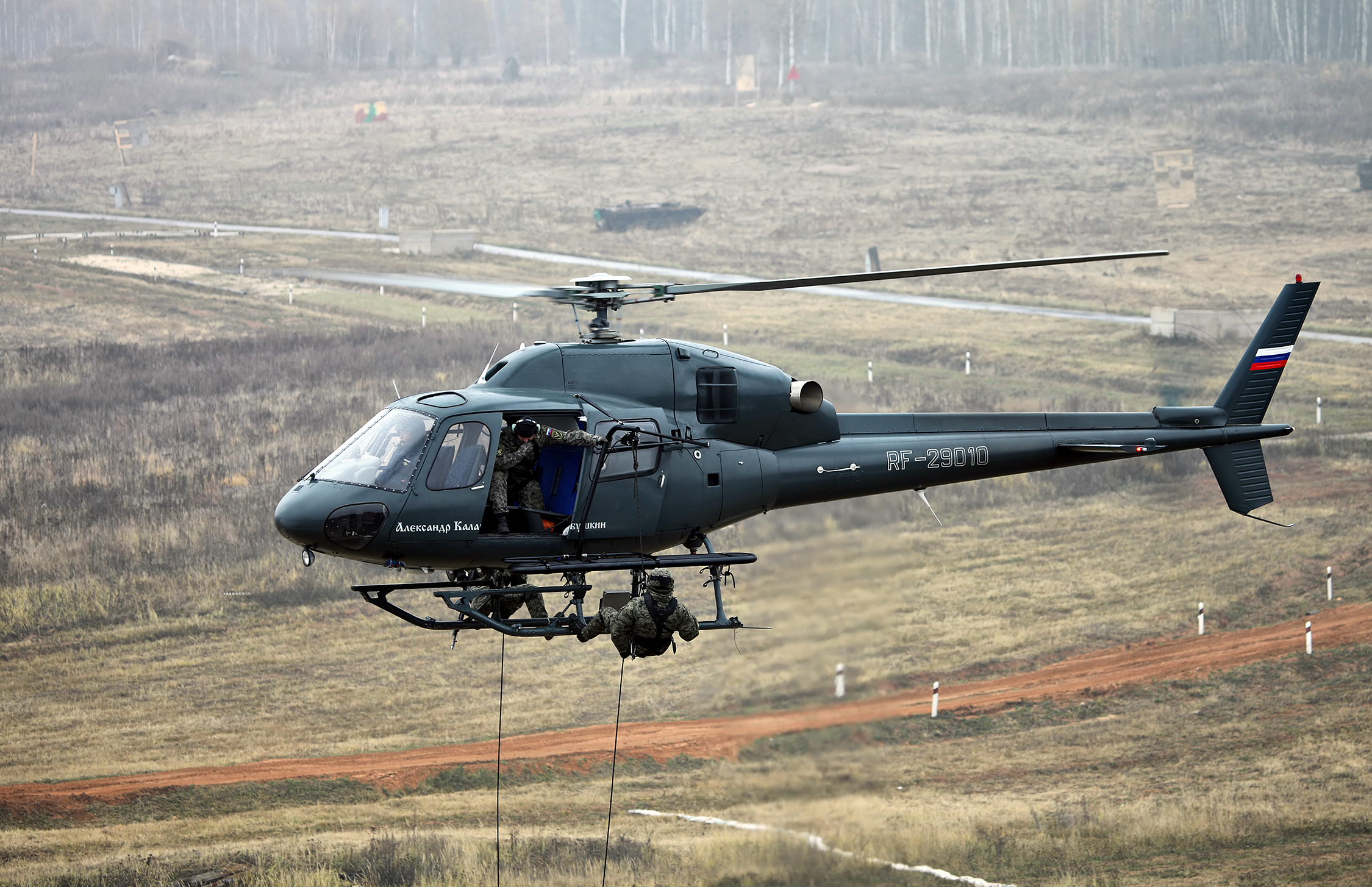 Special Rapid Response Unit (SOBR) "Rys" operators demonstrated the arrest of armed suspects in cargo truck with the help of aviation and explosives. AS355N Ecureuil 2 landed a group of Rys.